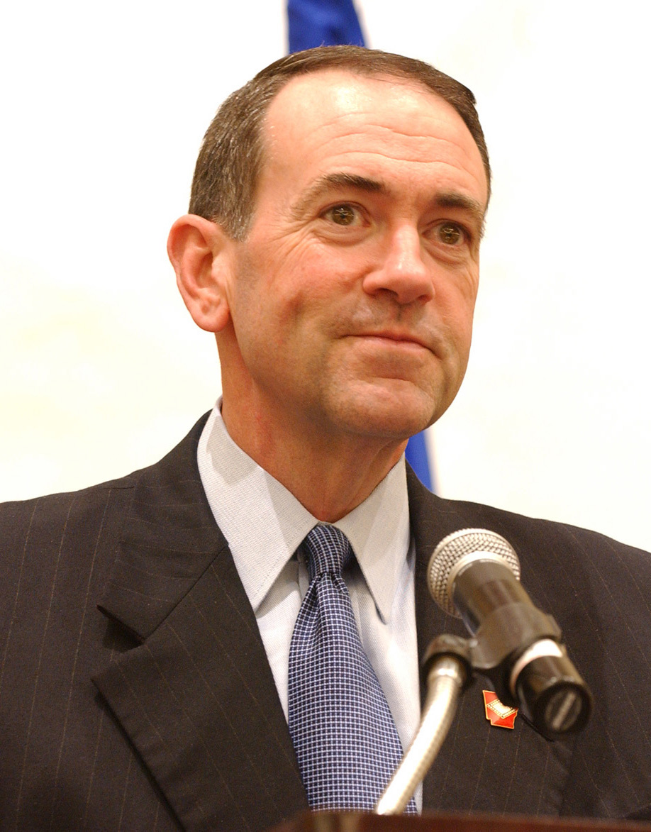 Mike Huckabee delivered the luncheon address on Friday and tells of his personal commitment to healthy choices.